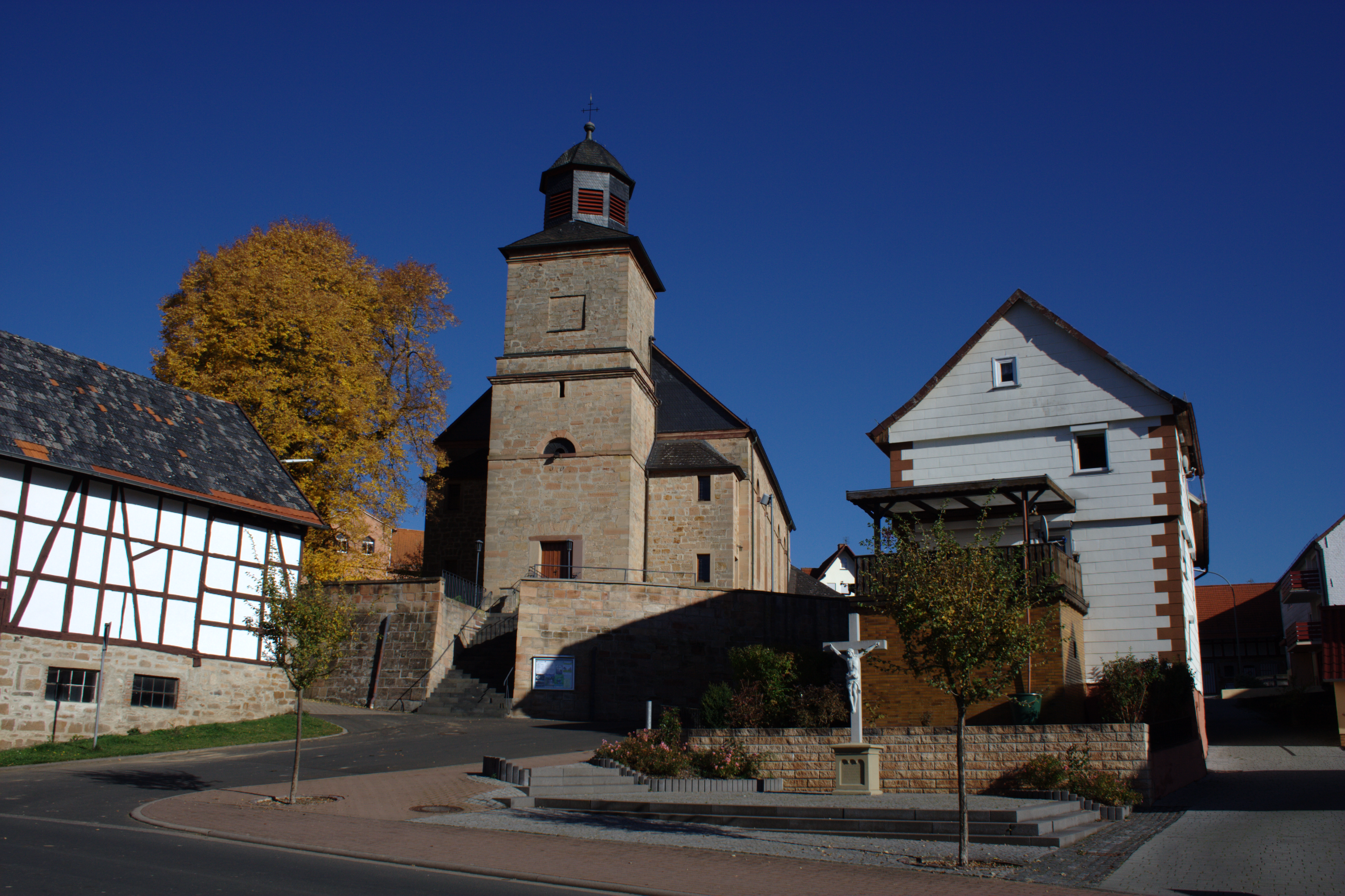 Church in Antrifttal Ruhlkirchen / Hesse / Germany